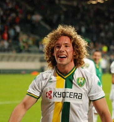 made bij Richard Mulder